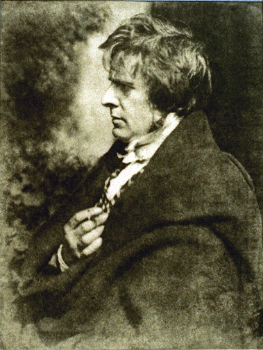 Portrait of David Octavius Hill (1802–1870), Scottish artist and photographer